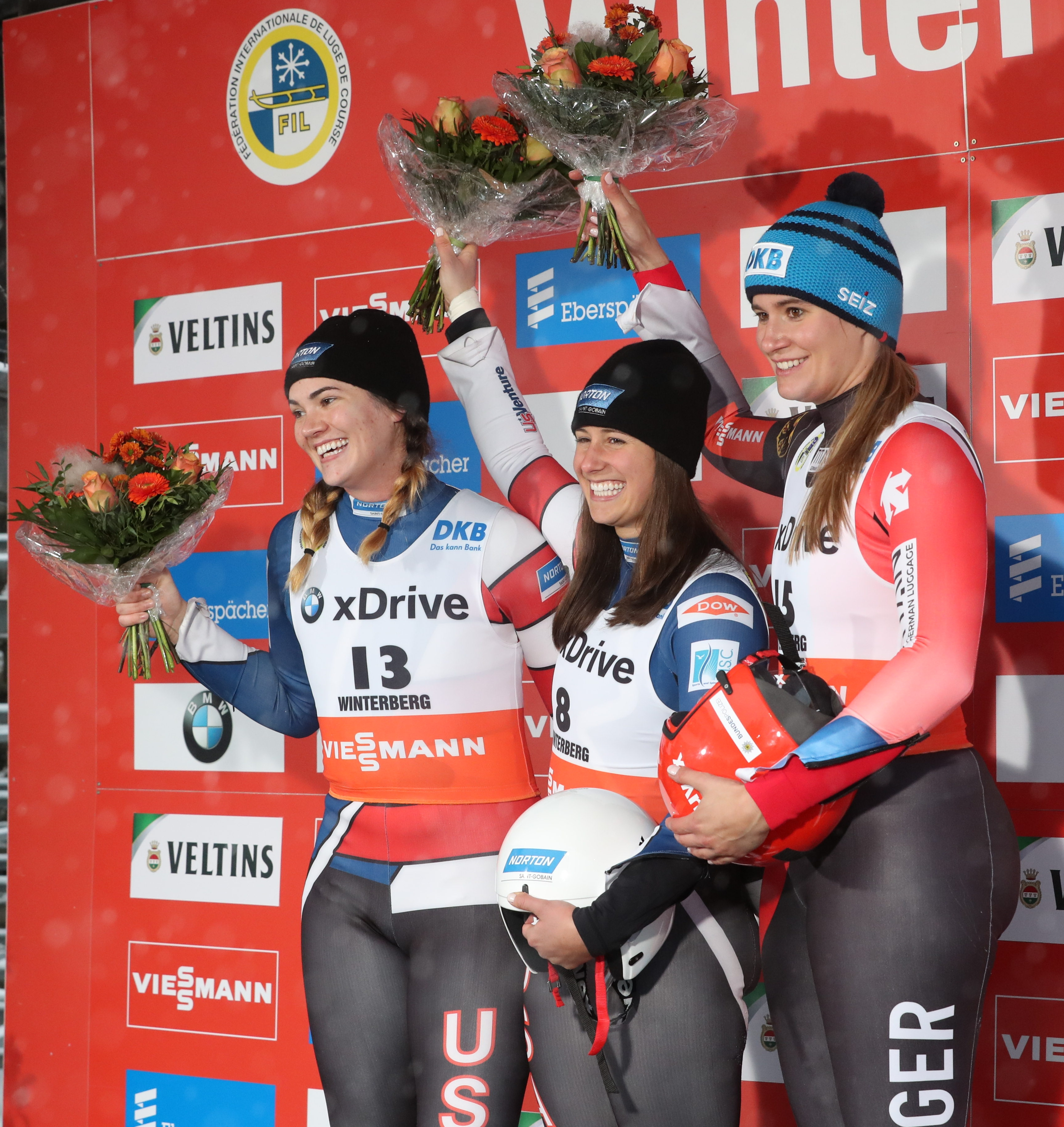 Sprint World Cup Women in Winterberg: Summer Britcher, Emily Sweeney, Natalie Geisenberger